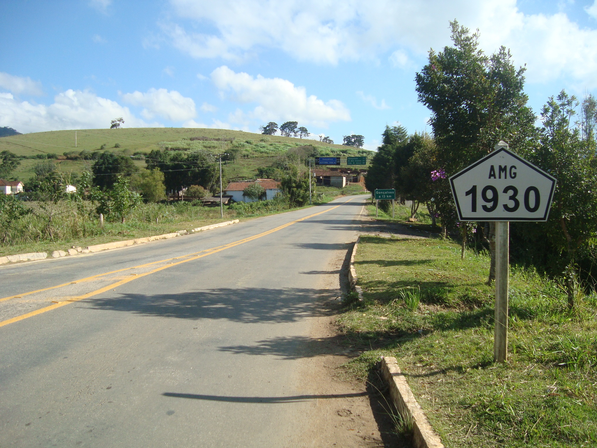 Road AMG-1930 in Gonçalves, Minas Gerais, Brazil